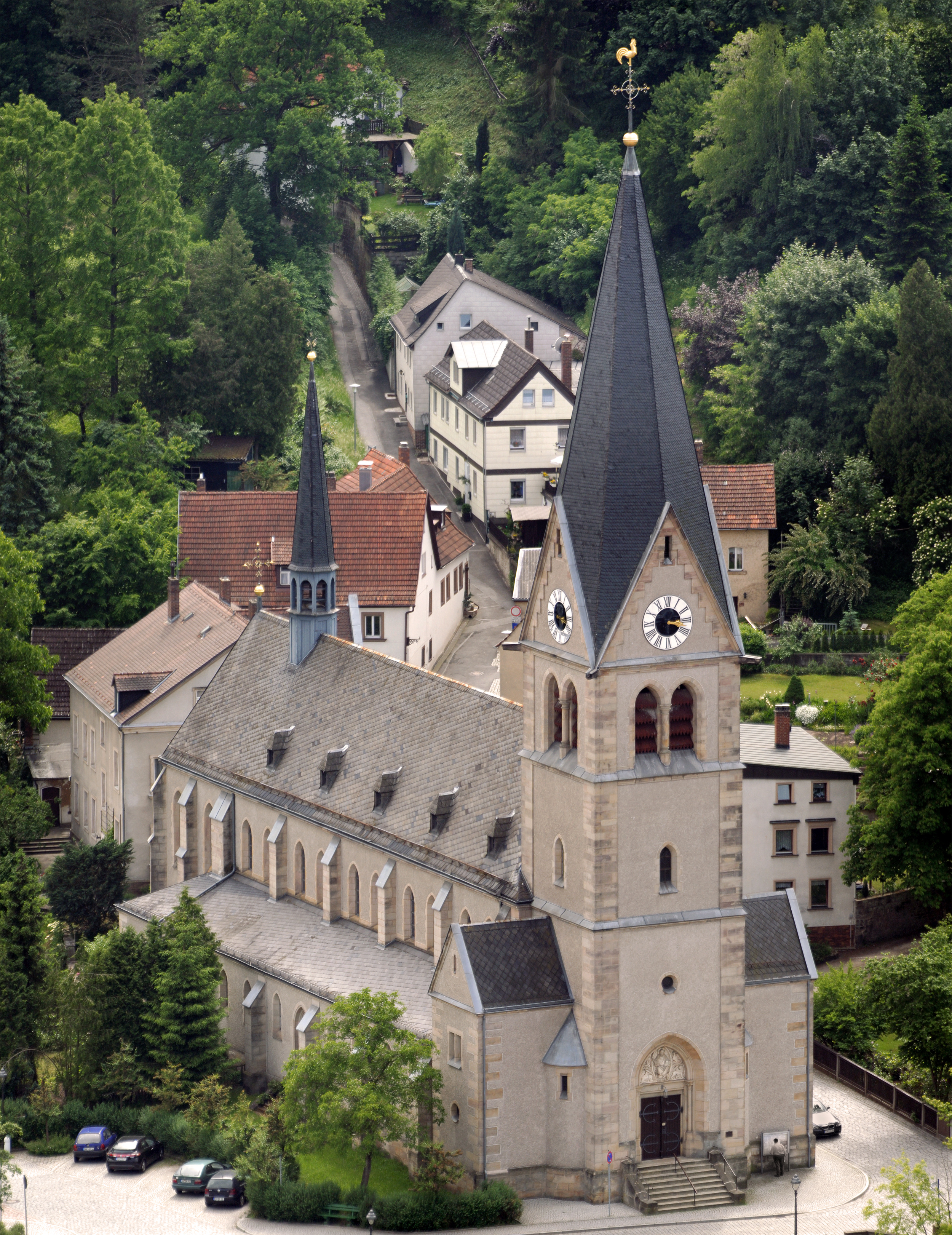 This image shows the church "Zu Unserer Lieben Frau" in Kulmbach, Germany. It has been stitched together using eleven images.